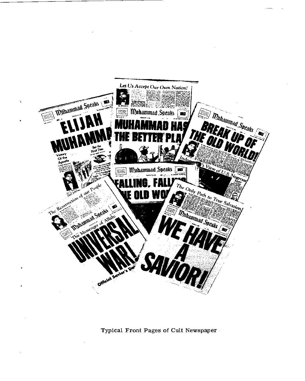 Page from 1960 FBI primer on Nation of Islam This image or file is a work of a Federal Bureau of Investigation employee, taken or made as part of that person's official duties. As a work of the U.S. federal government, the image is in the public domain.